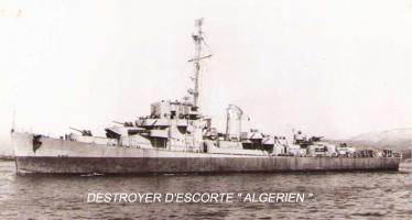 Port side view of Free French Destroyer Escort Algerien (F701).